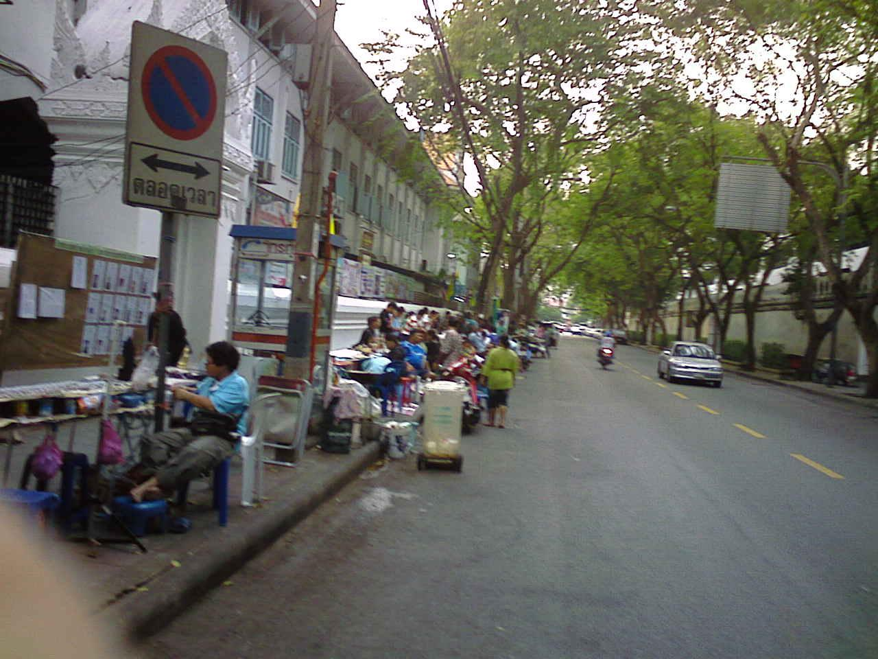 Phracan street